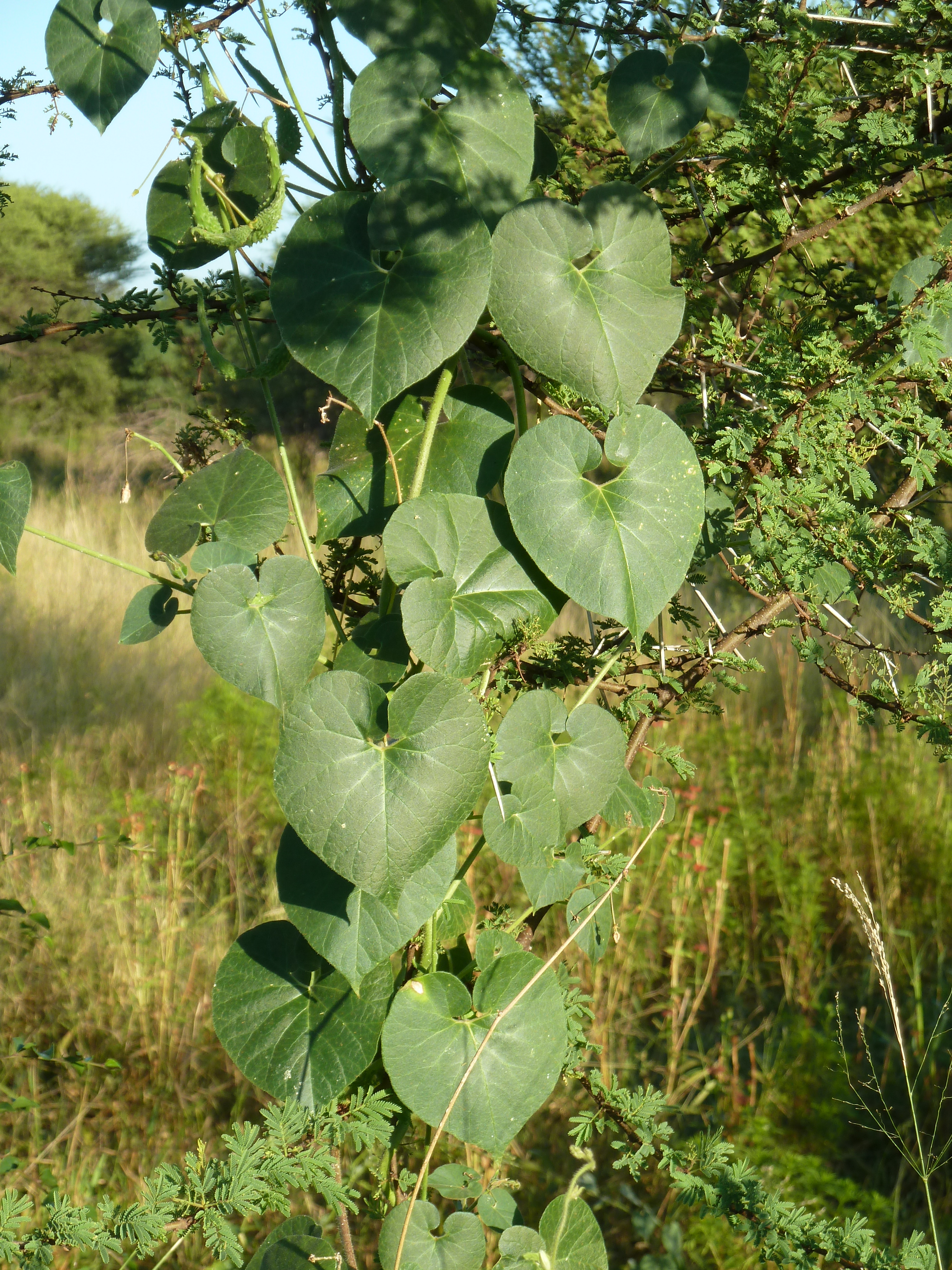 Trellis-vine climbing in an Umbrella thorn on the Springbok Flats, Limpopo, South Africa. Fruit can be seen at top left.